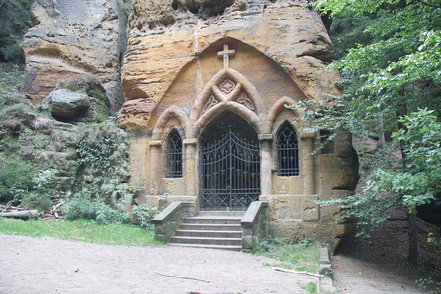 Pilgrimage chapel of Our Lady of Lourdes in Modlivý důl valley near Svojkov, Czech Republic. autor:Prazak date: 20. 9. 2004